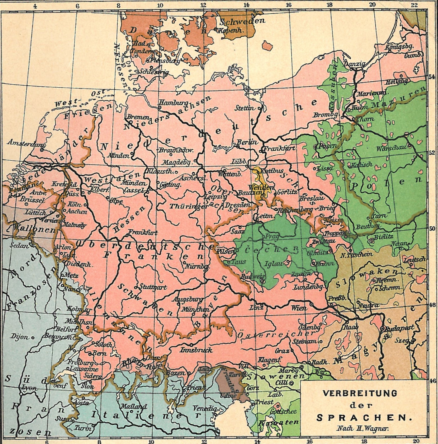 Linguistic Map of Central Europe from 1906